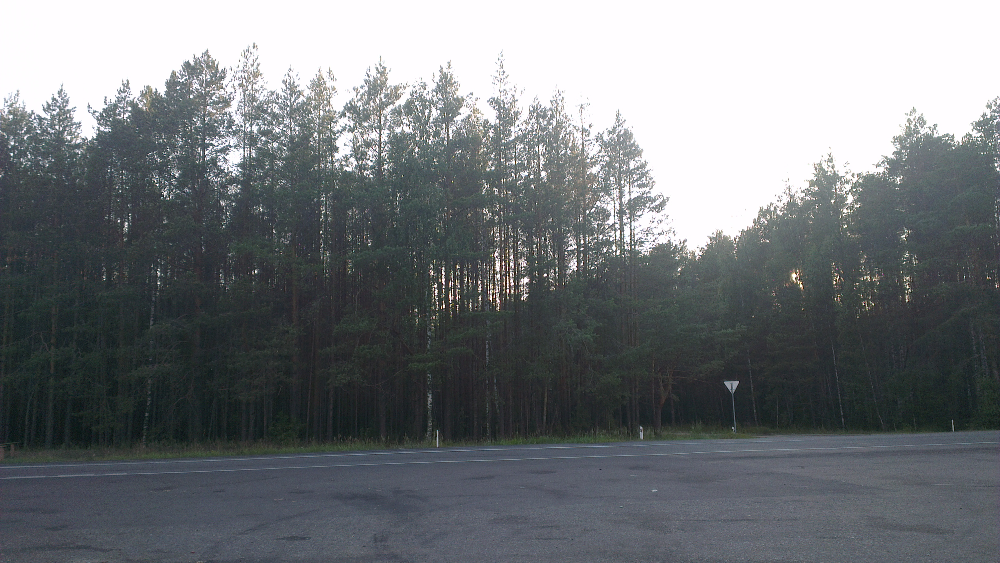 Zvenigovsky District, Mari El Republic, Russia